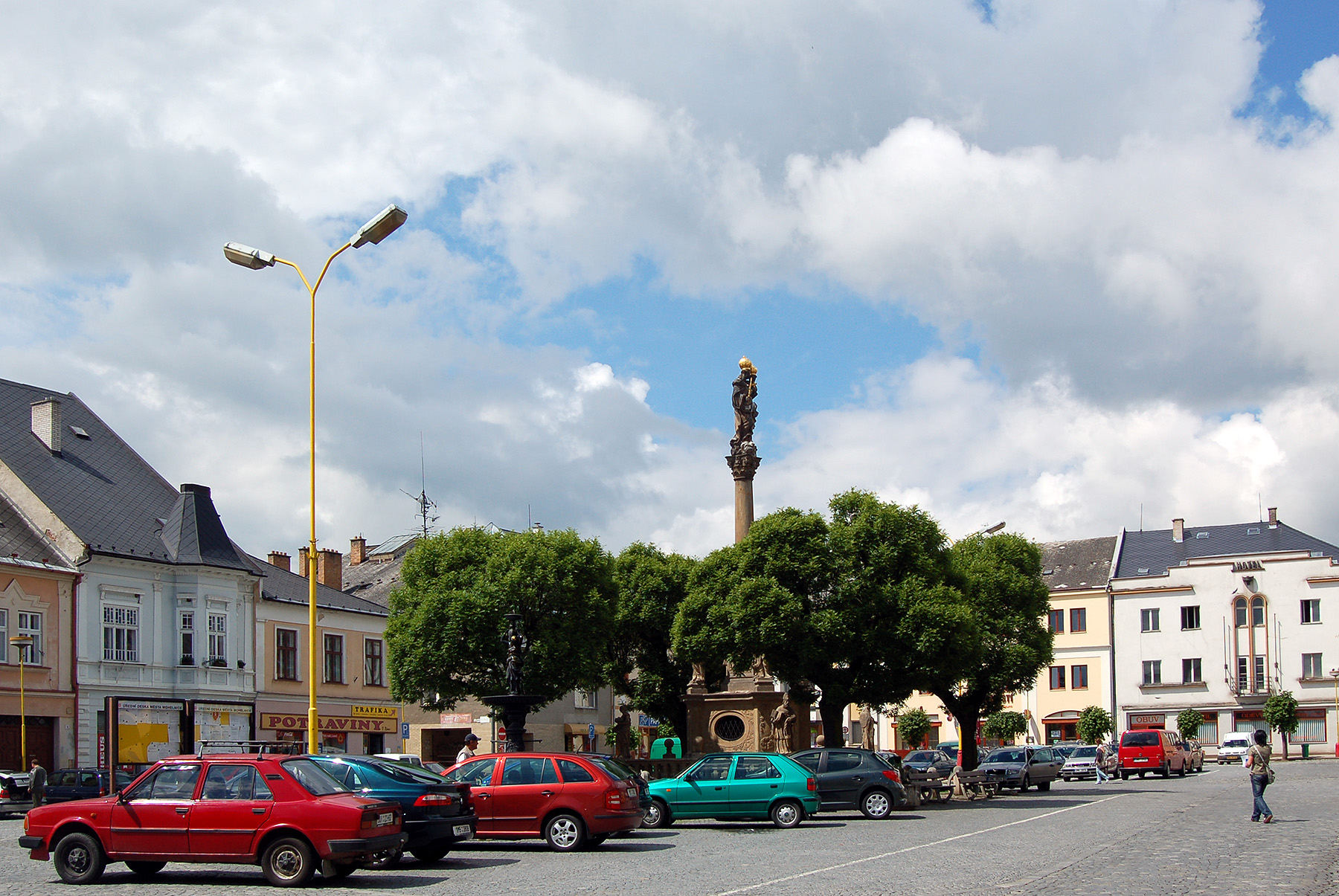 Freedom Square with Marian plague column in Mohelnice, Šumperk District, Czech Republic